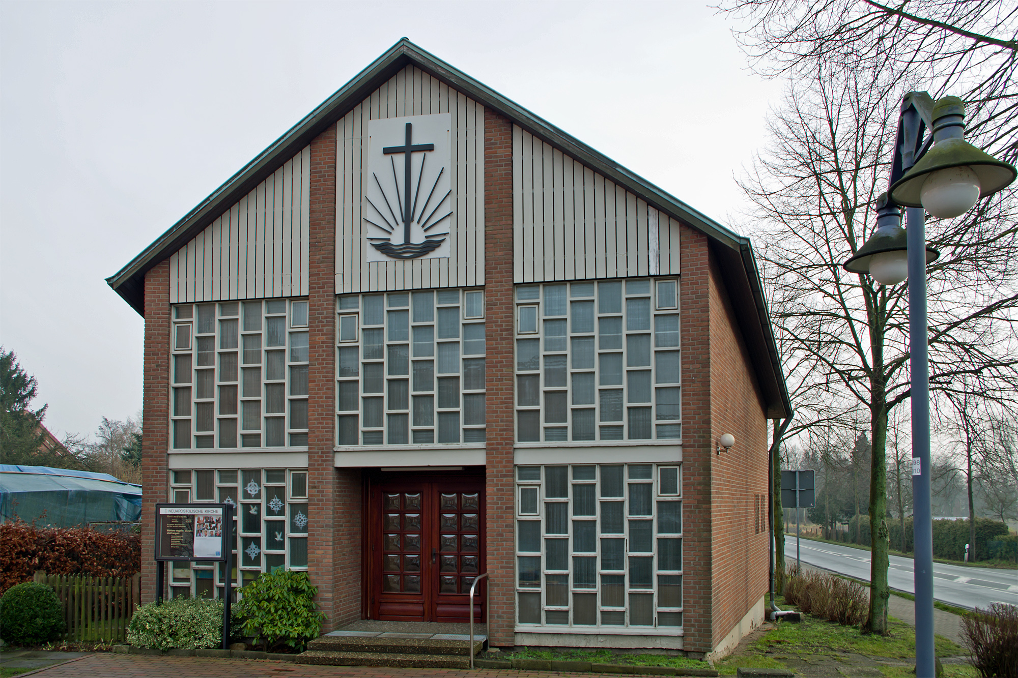 New apostolic church in the small town Dannenberg (district Lüchow-Dannenberg, northern Germany).